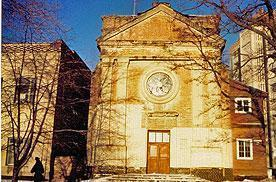 Facade of the Immaculate Conception of Virgin Mary temple in Romny (Ukraine).